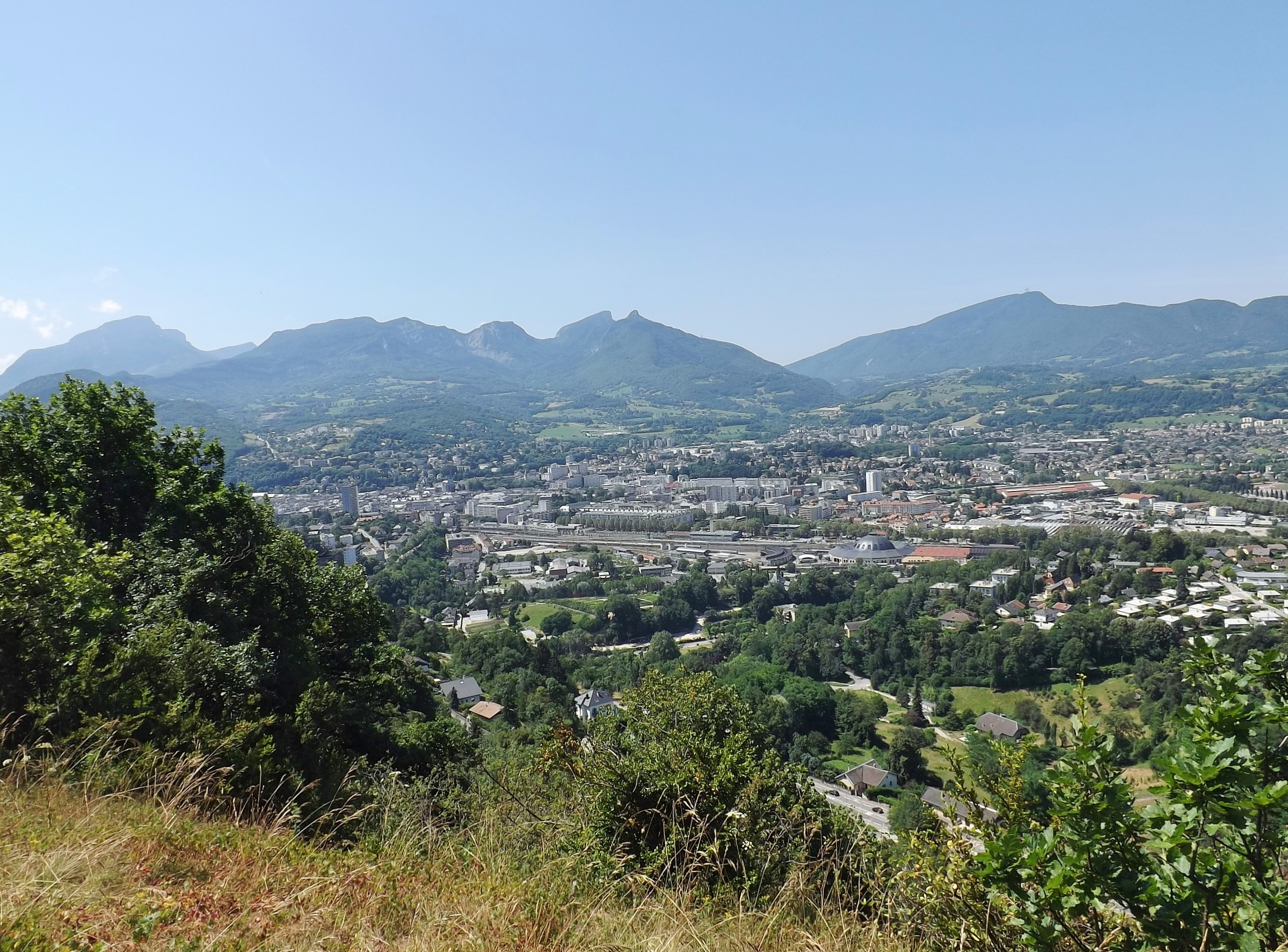 Landscape of the French city of Chambéry and its surroundings, seen from Les Monts (mountain crossing the city), in Savoie.